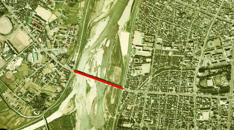 Toyama-Ohashi in Toyama, Japan